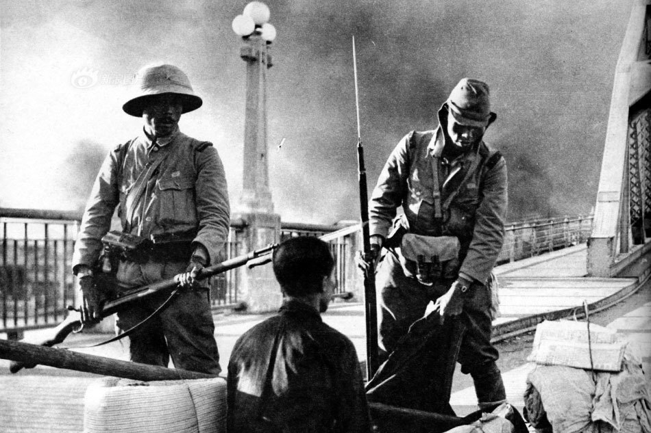 Soldiers of the IJA 18th division check a Chinese, Guangzhou, October 1938